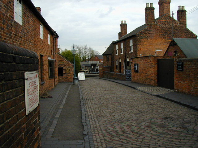 Black Country Museum